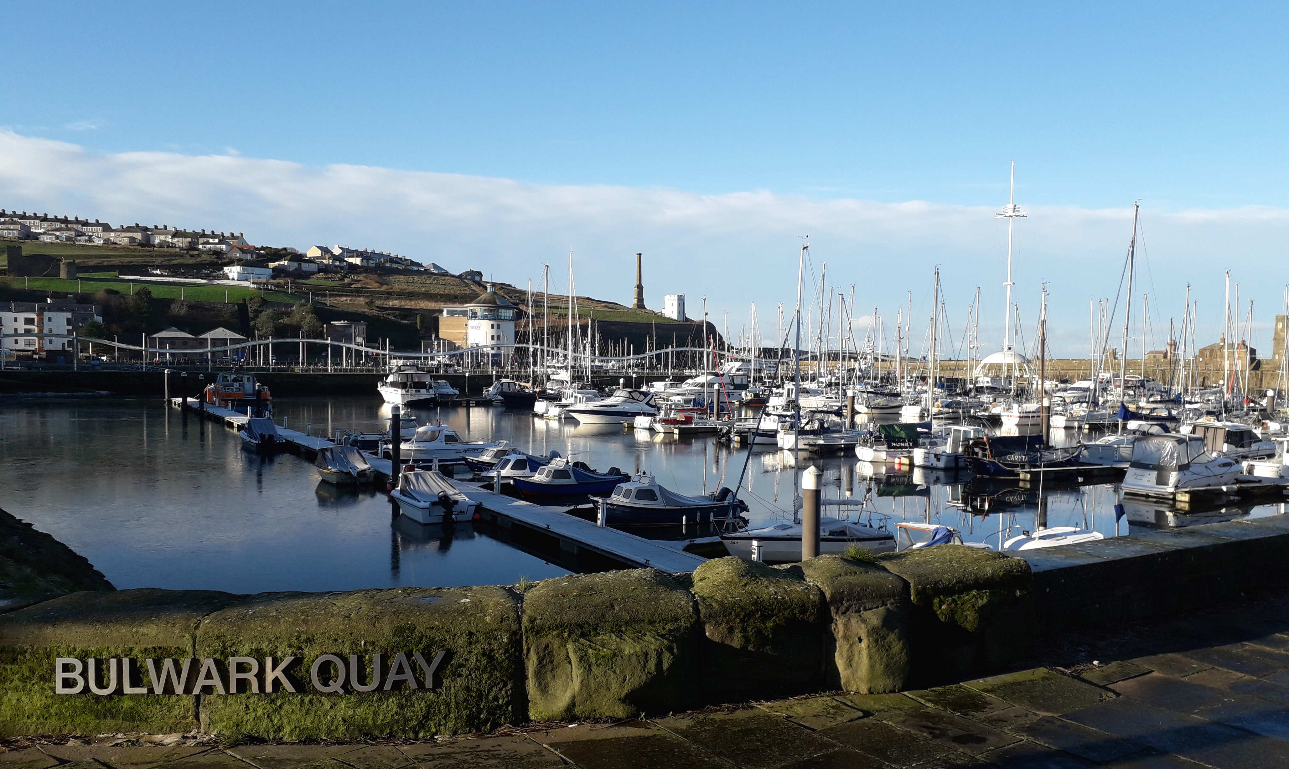 The impounded Whitehaven marina with beacon museum and chimney from Wellington pit in the background